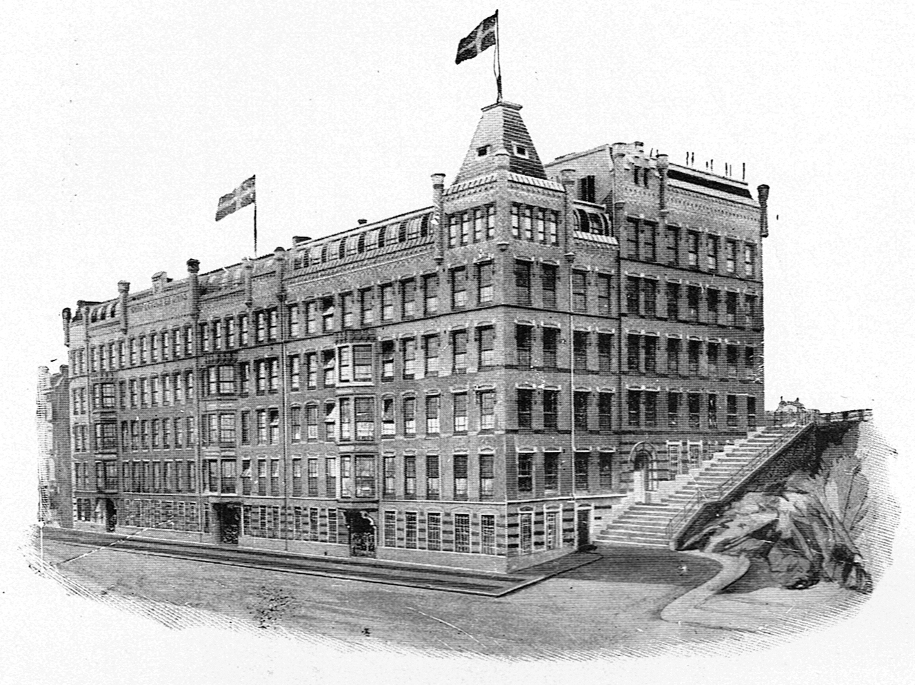 J.A. Wettergren & Co Factory Building, Göteborg